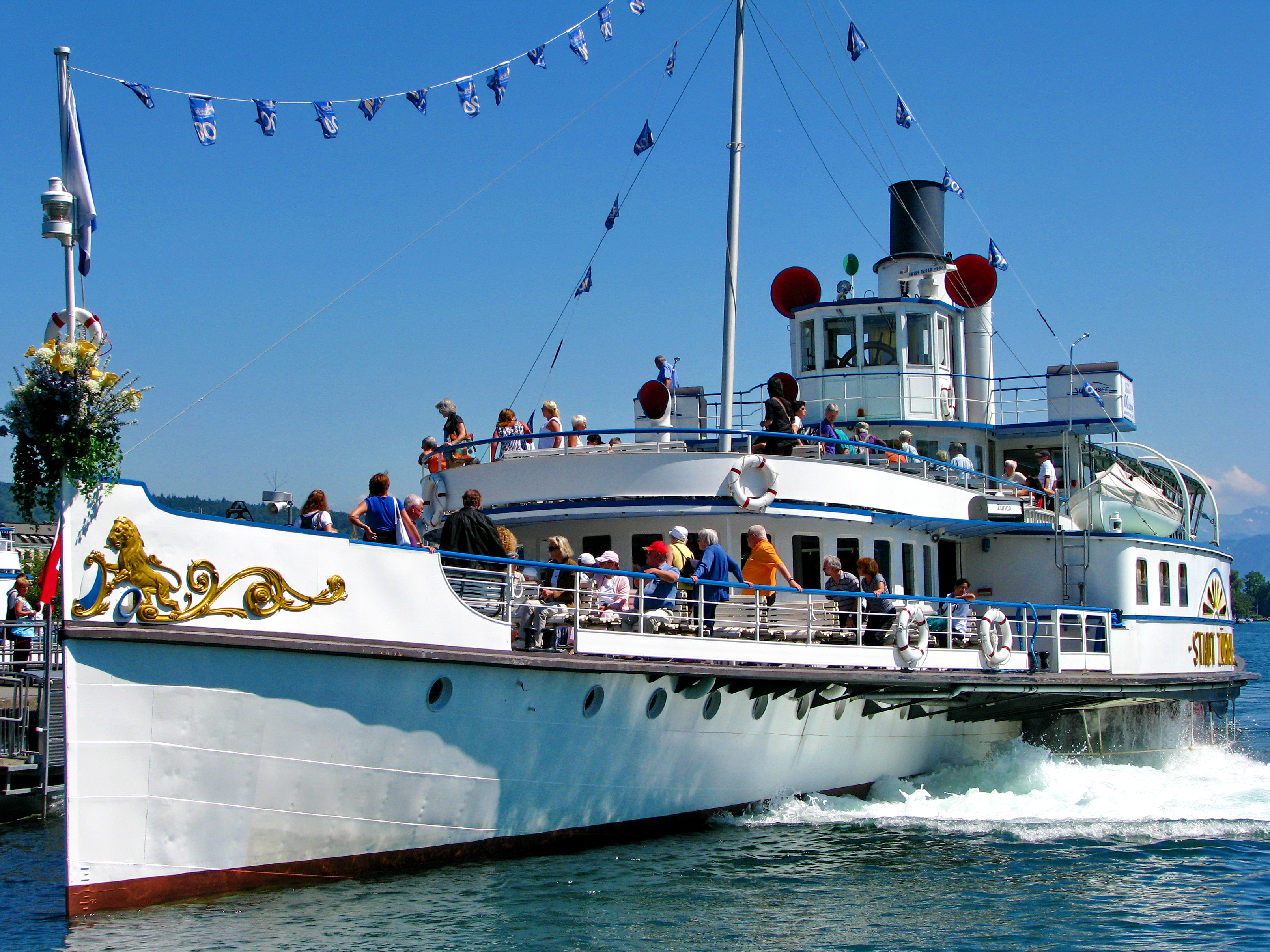 Zürichsee-Schiffahrtsgesellschaft (ZSG) paddle steamer Stadt Zürich at Bürkliplatz in Zürich.